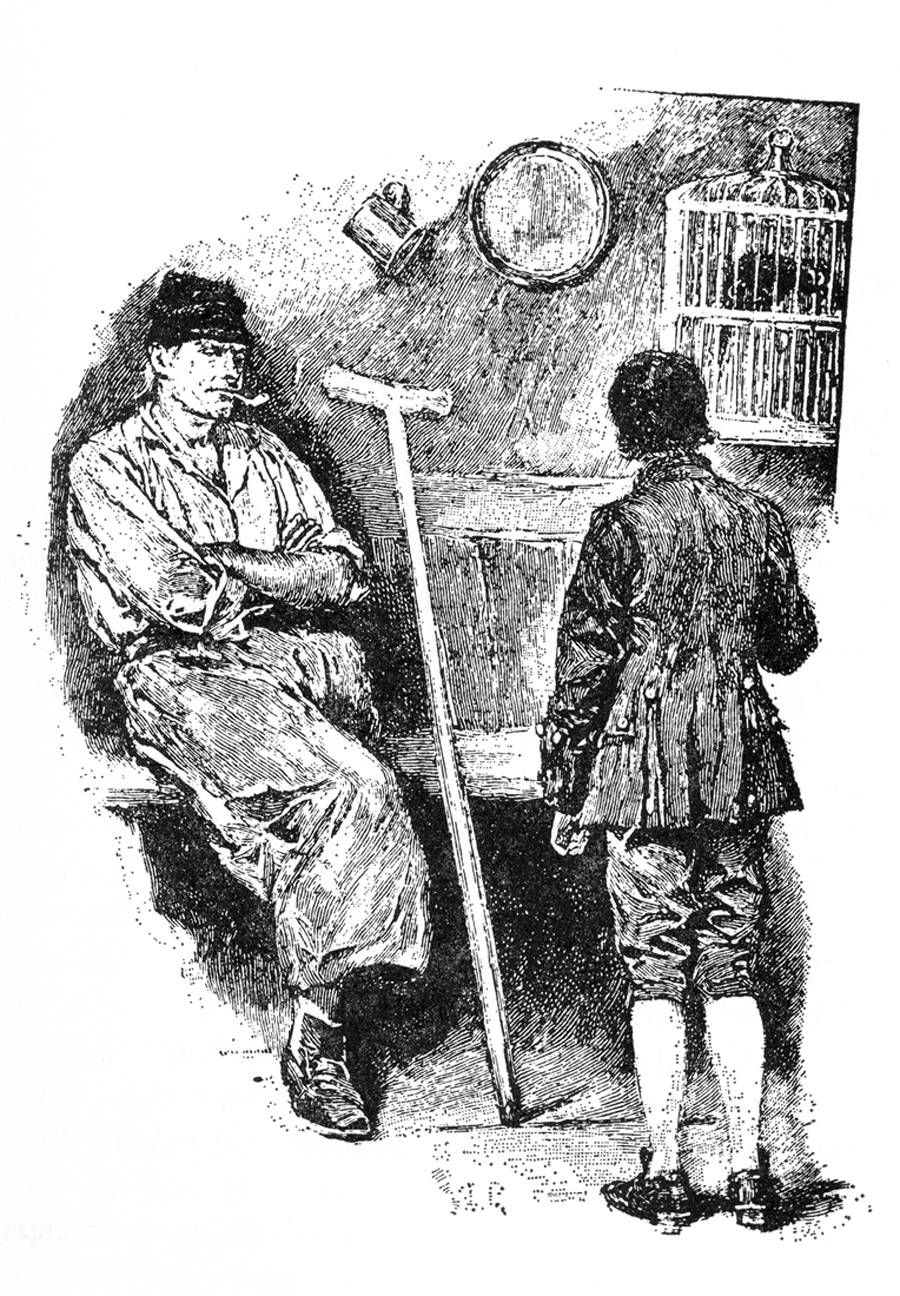 Long John Silver and Jim Hawkins Illustration by Walter Paget for the 1899 edition of "Treasure Island" by Robert Louis Stevenson